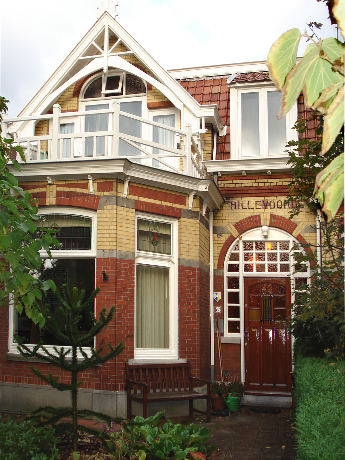 This is the villa where the notorious master forger Han van Meegeren lived with his first wife in 1913 in Rijswijk, Holland.